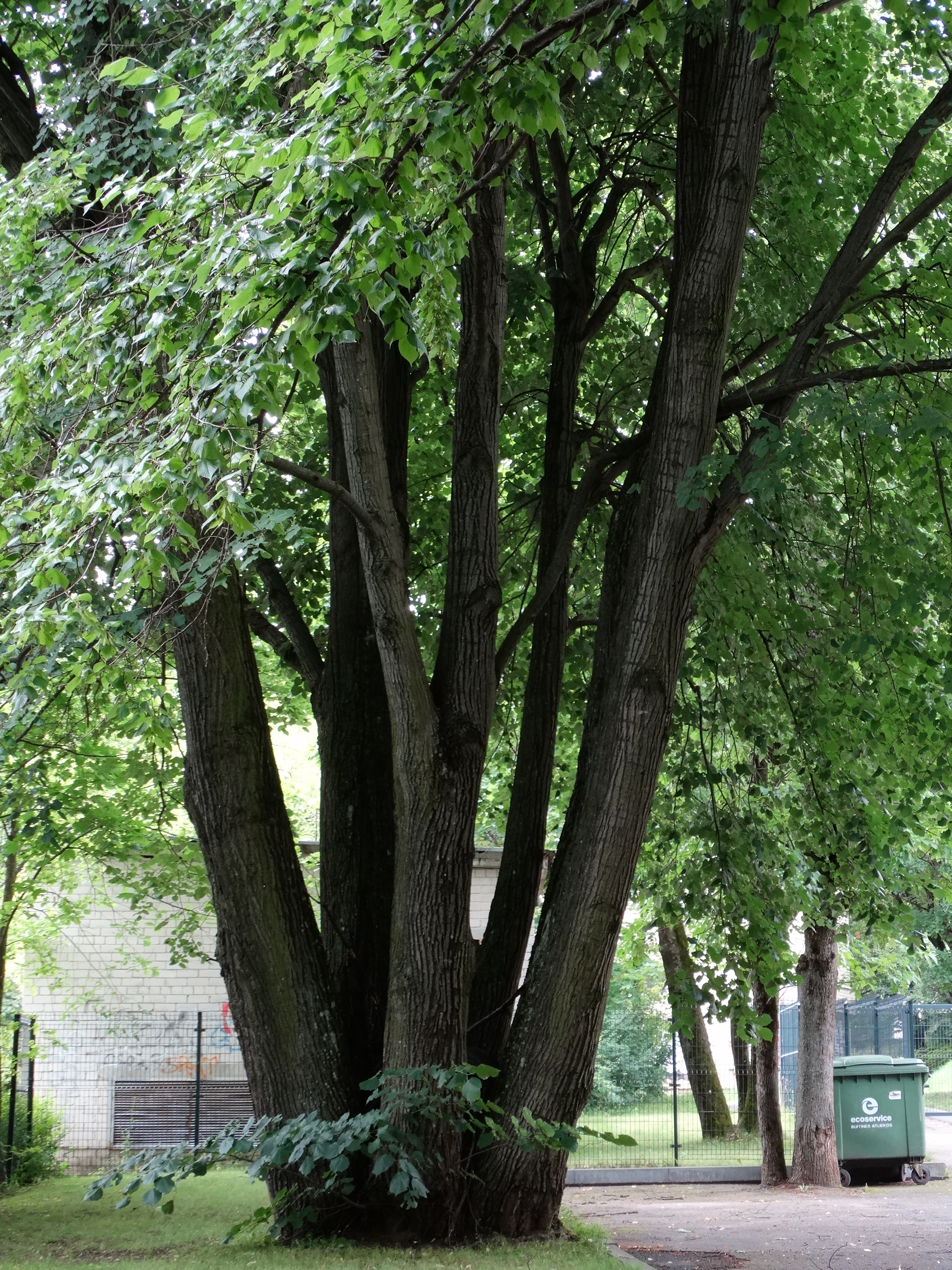 6-trunk lime tree in Žvėrynas, street Sėlių, Vilnius, Lithuania